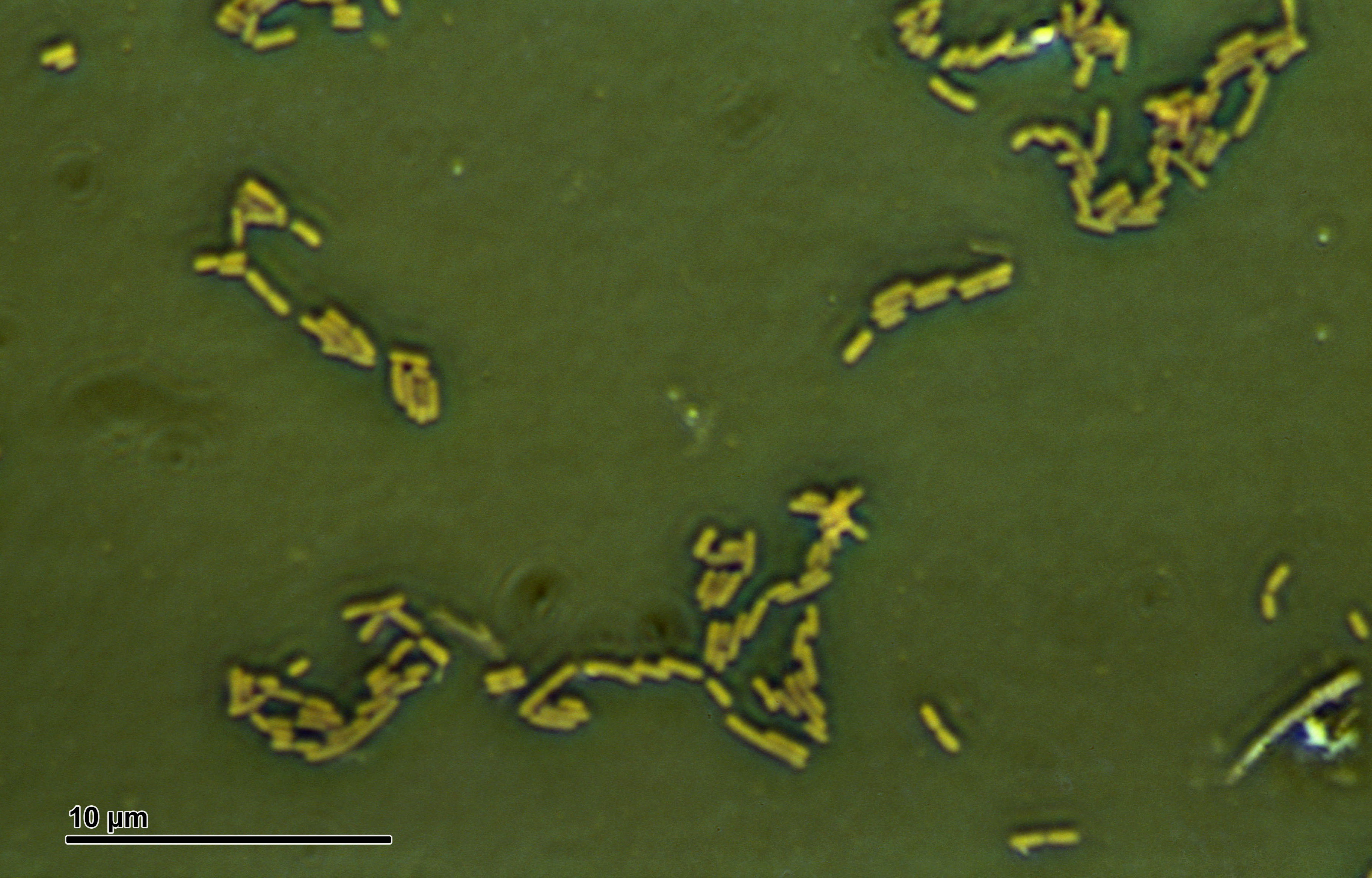 Escherichia coli (Escherichia coli): Gramnegative rods. Optical microscopy technique: Negative phase contrast. Magnification: 6000x (for picture width 26 cm ~ A4 format).